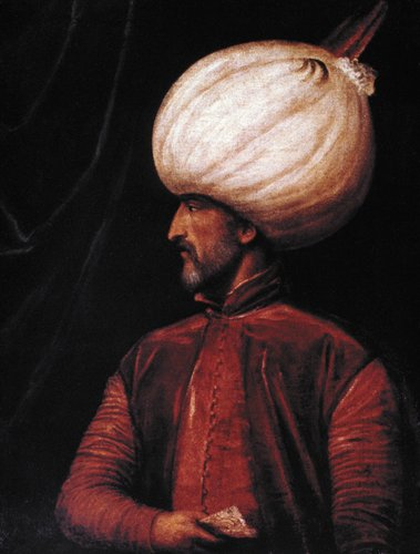 Suleiman the Magnificent, sultan of the Ottoman Empire at the height of its power, from 1520 to 1566; sixteenth-century painting by a member of the Venetian school